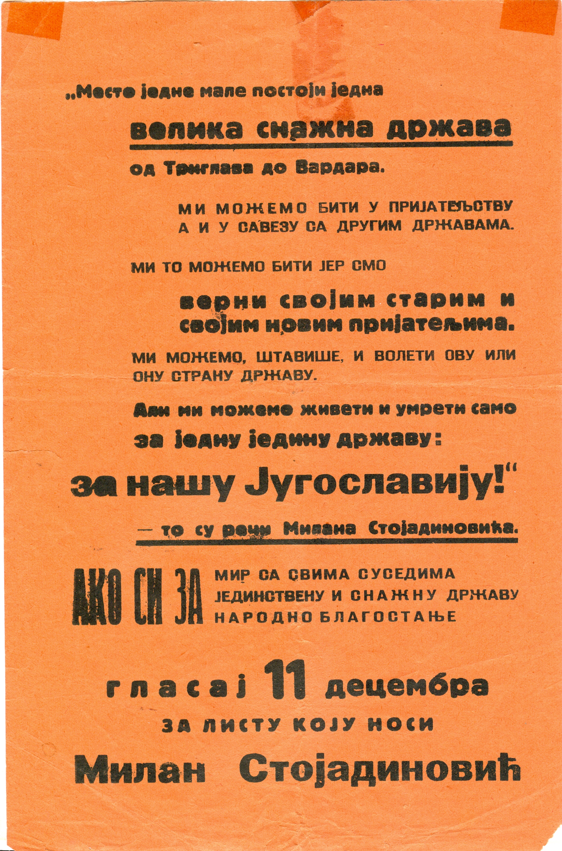 Milan Stojadinovic's poster for the 1938 elections Srpski (latinica): Predizborni poster Milana Stojadinovića za izbore 11.decembra 1938.